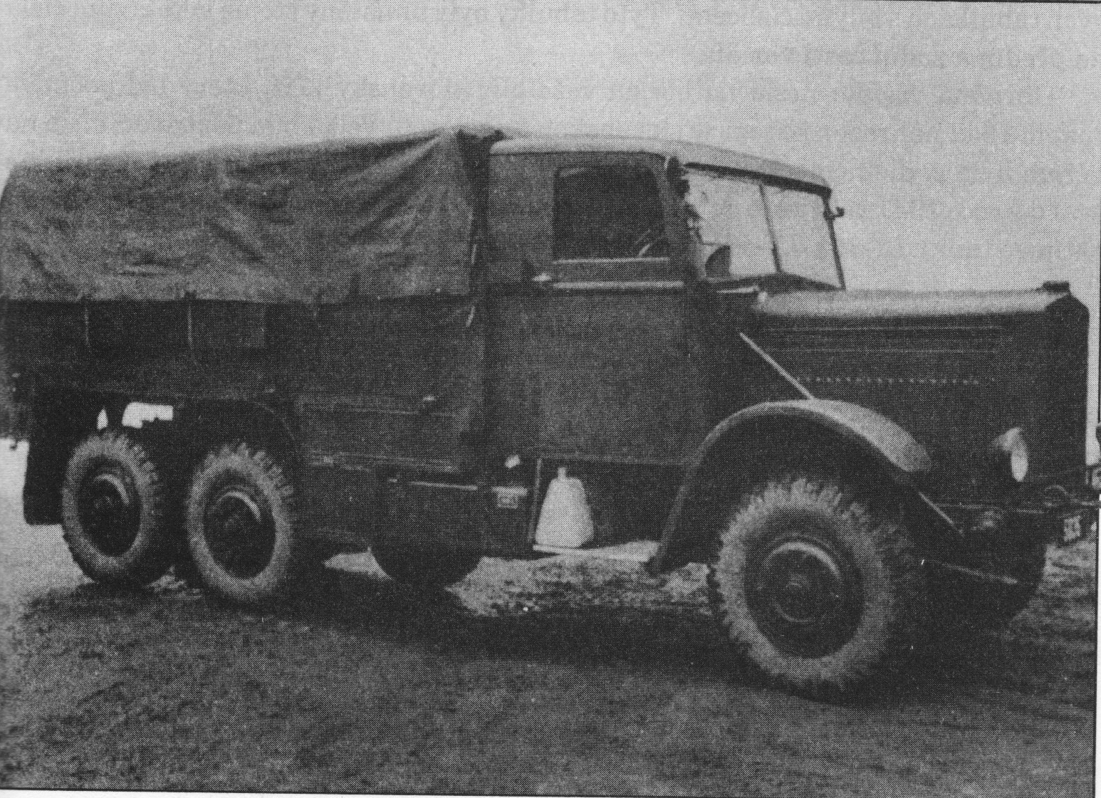 Skoda 6 ST 6-L